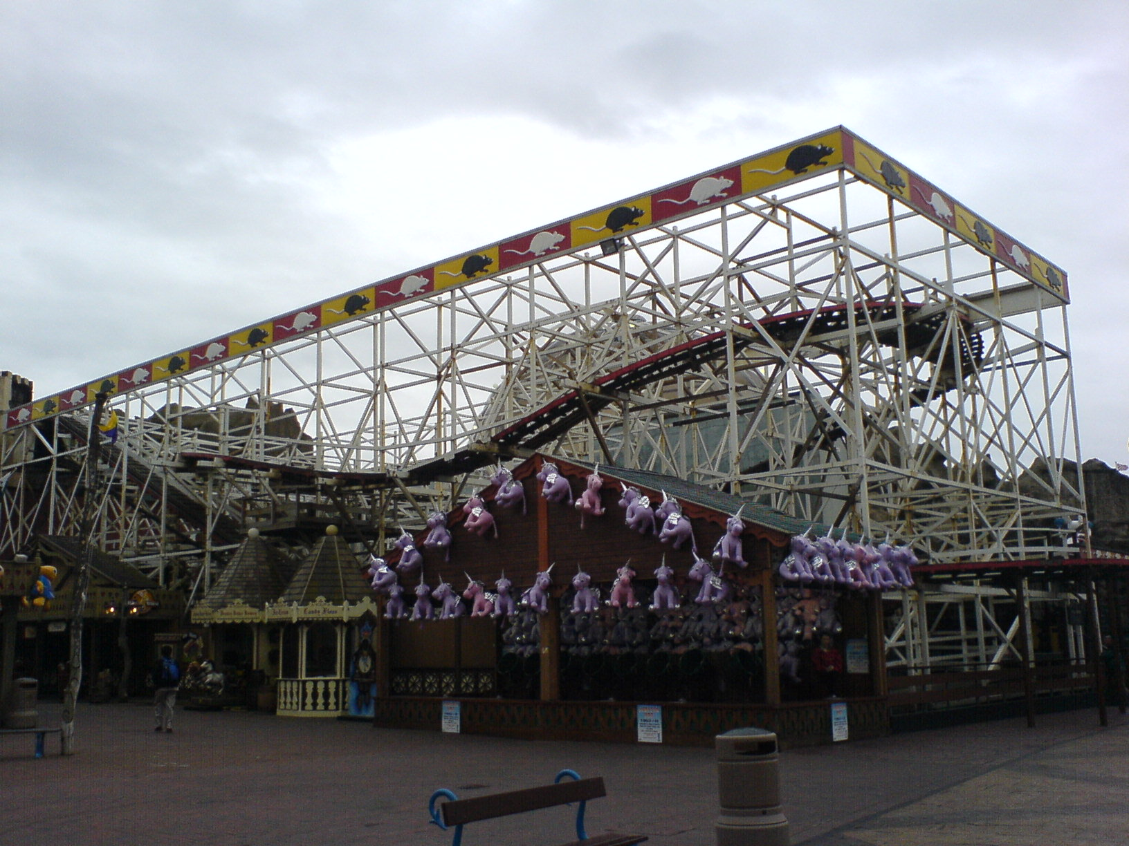 The Blackpool Pleasure Beach Wild Mouse, June 14th 2007